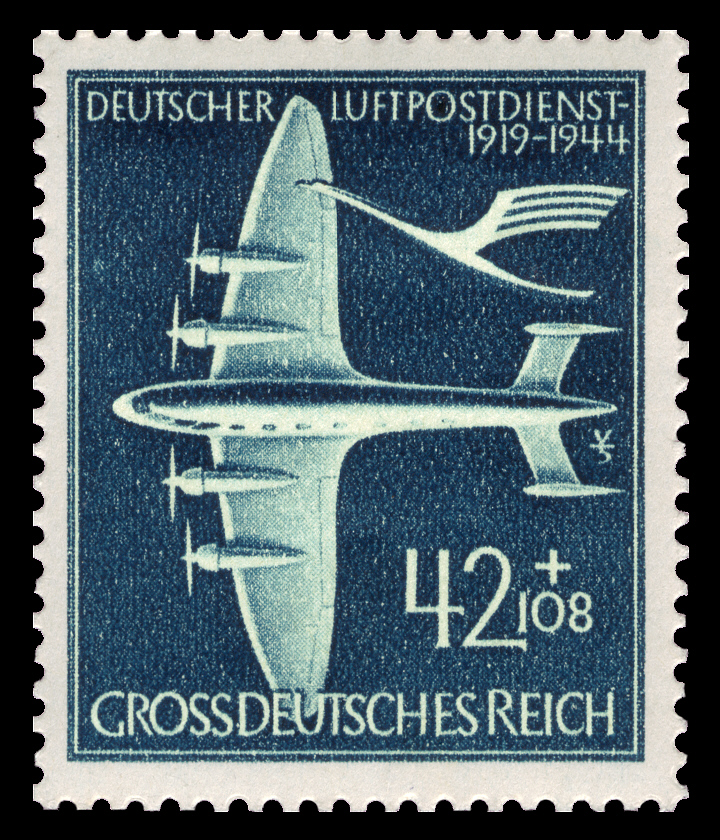 25 years of German Airmail Graphics by Ernst Rudolf Vogenauer Ausgabepreis: 42+108 Pfennig First Day of Issue / Erstausgabetag: 11. Februar 1944 Michel-Katalog-Nr: 868 (Deutsches Reich)